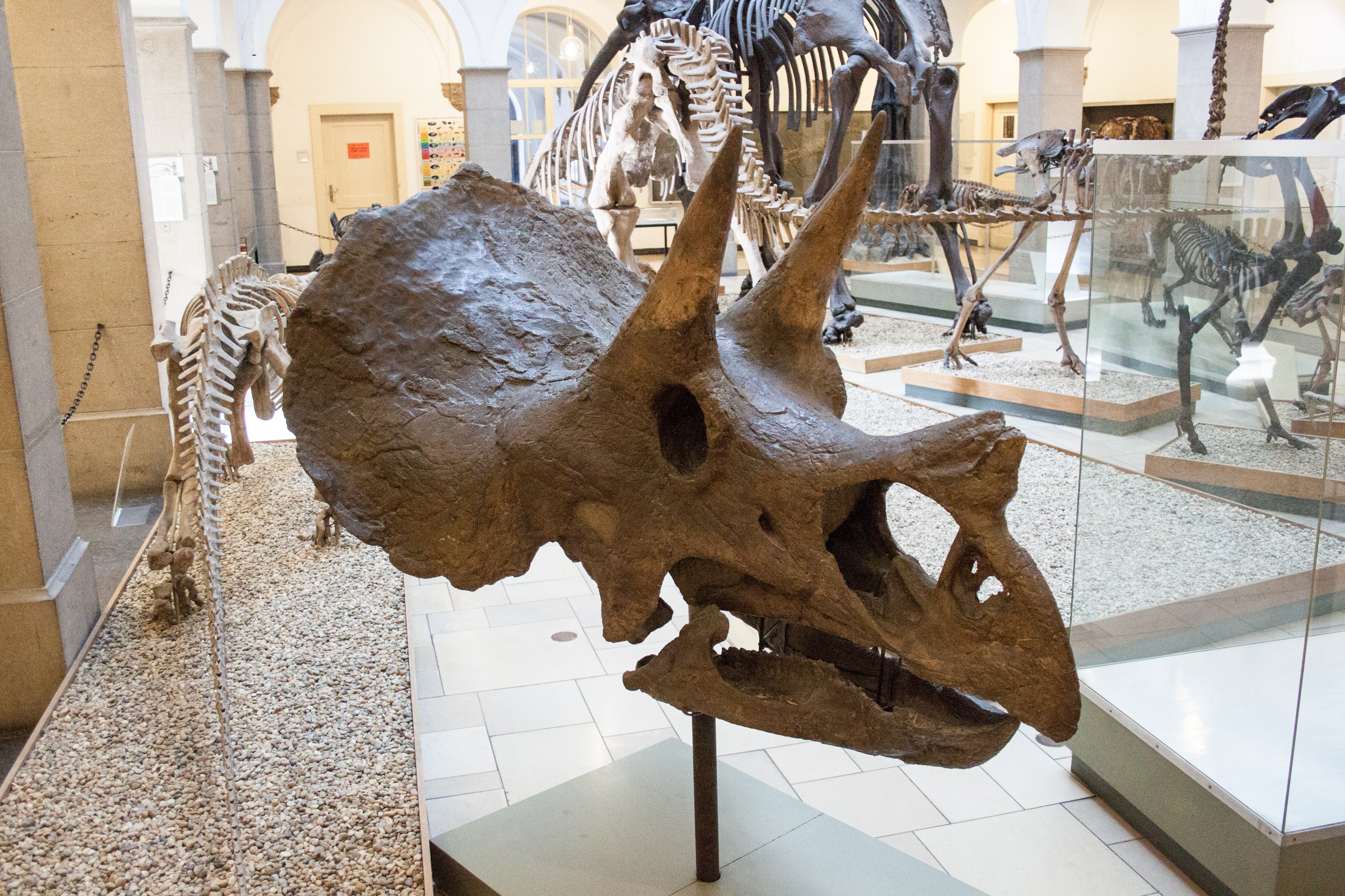 Triceratops horridus